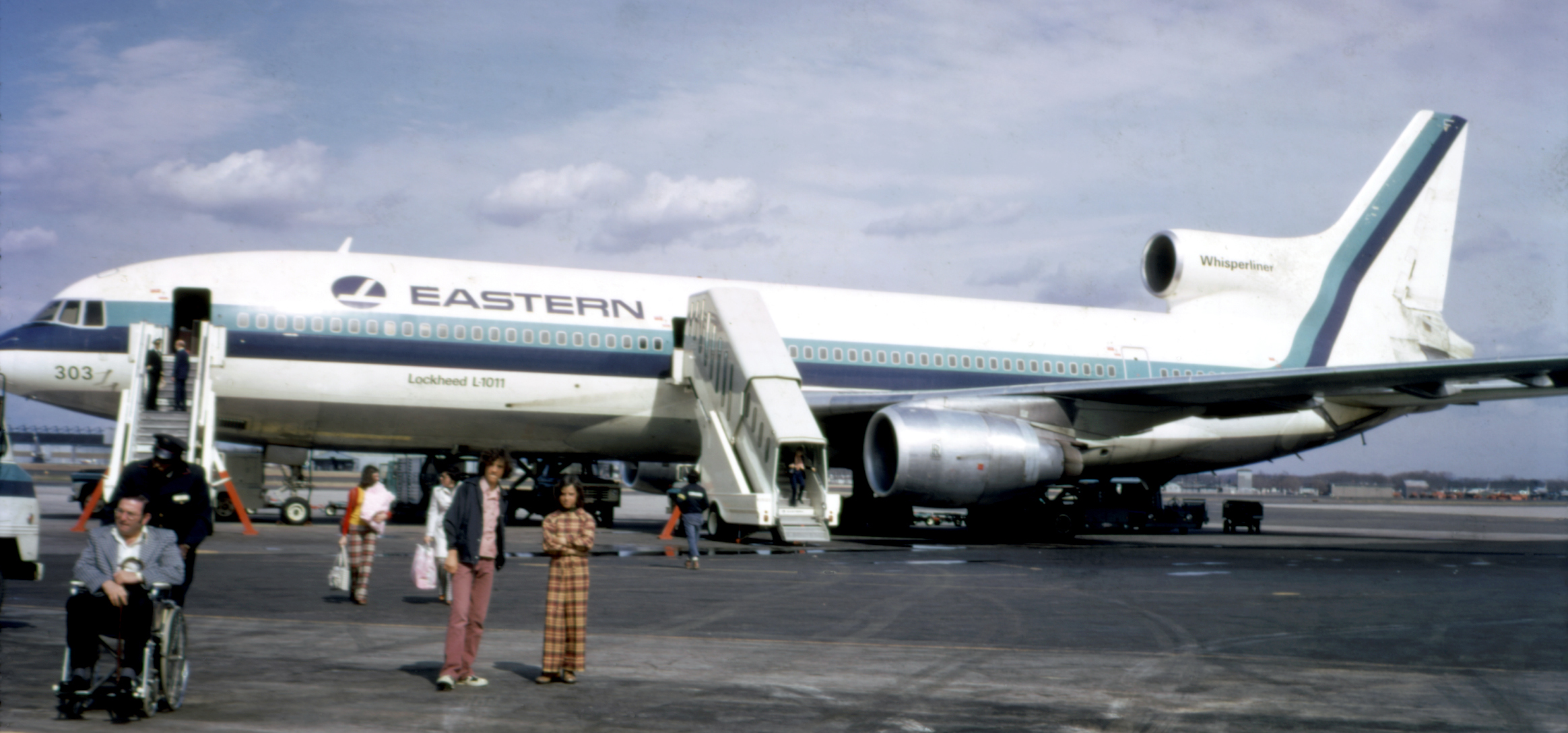 An Eastern Airlines L1011 on the tarmac in 1974